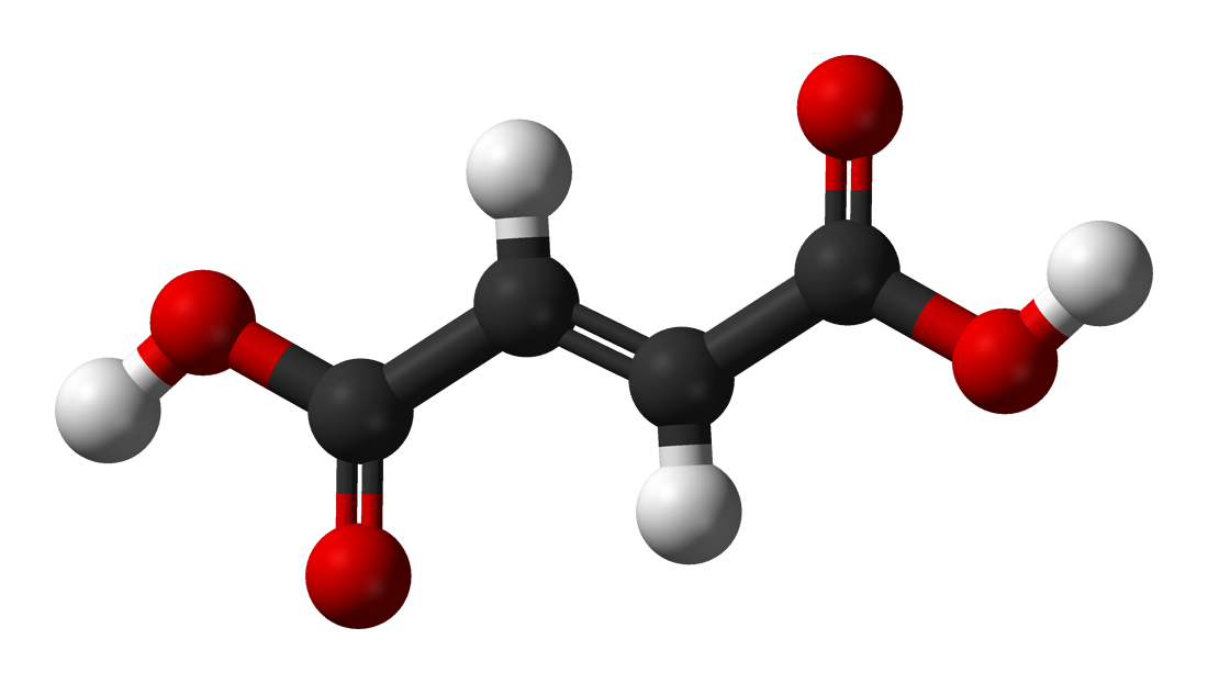 Ball-and-stick model of the fumaric acid molecule